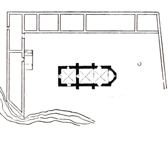 Panagia Stazousa, Cyprus